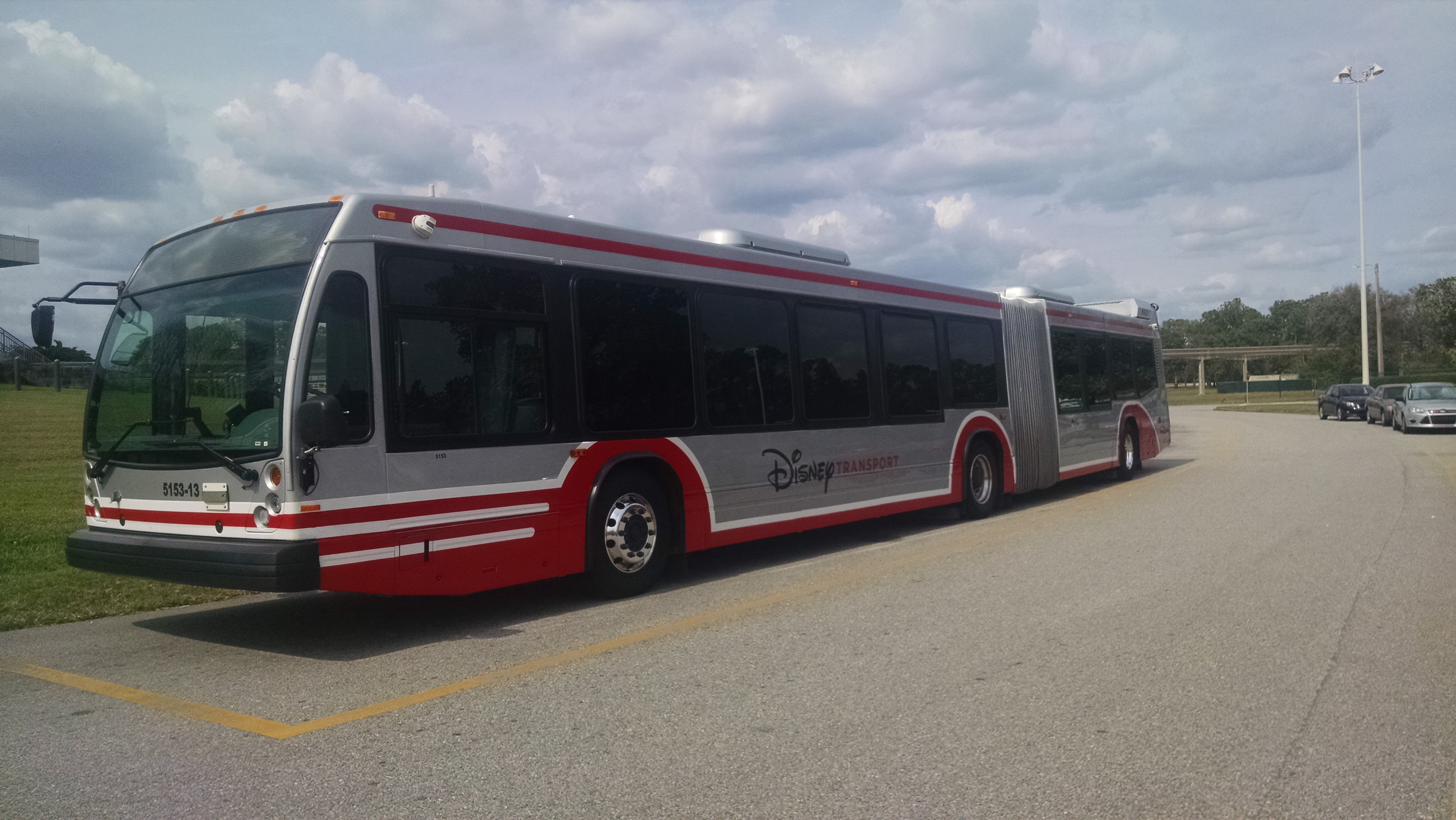 Disney articulated bus